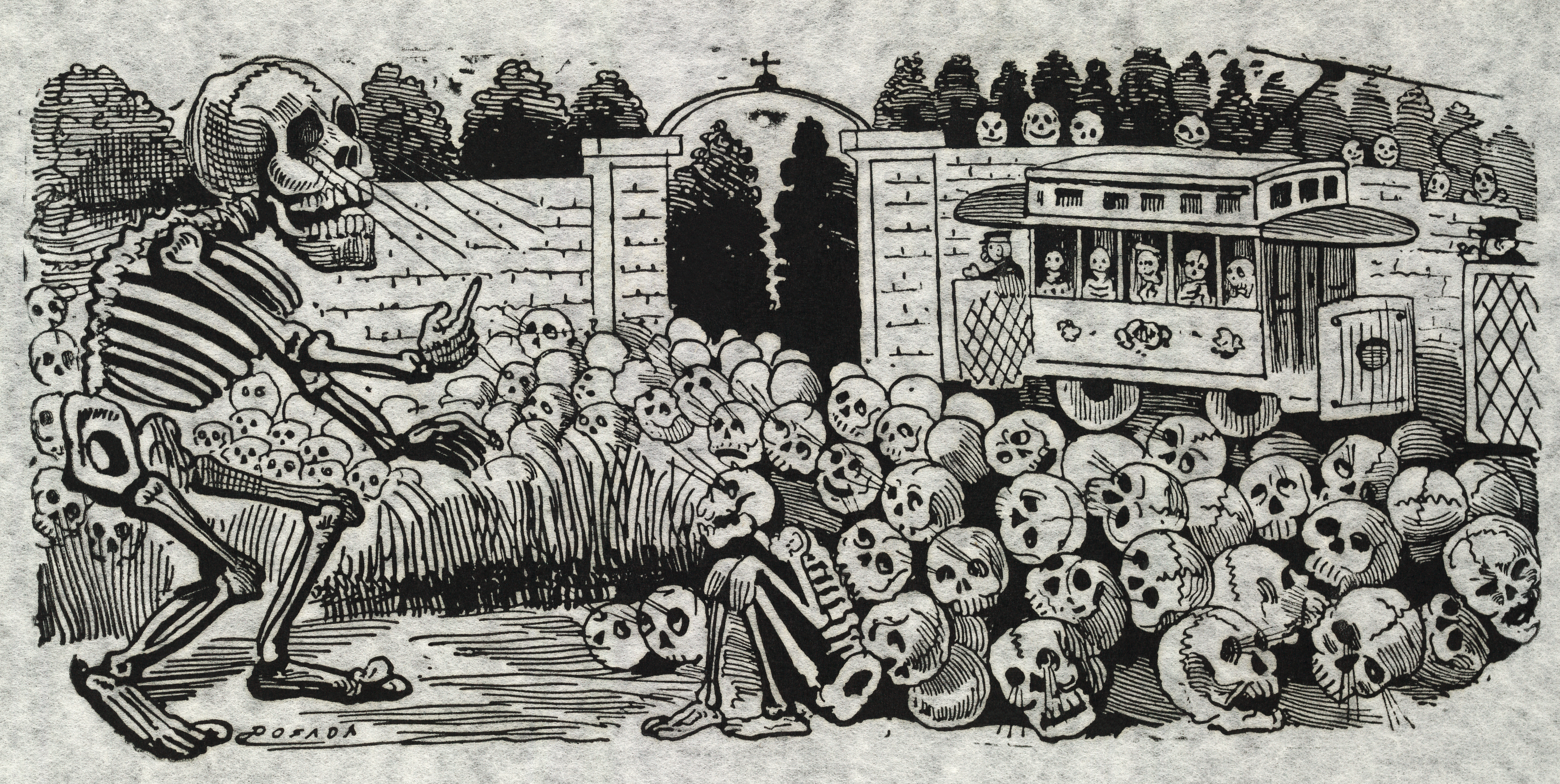 "Gran calavera eléctrica" (Grand electric skull) "Print shows large skeleton hypnotizing a group of skulls and a sitting skeleton; an electric street car, with skeletons as passengers, is in the background." "1 print on white fabric : relief etching ; 21.4 × 34 cm. (sheet)." Created by José Guadalupe Posada